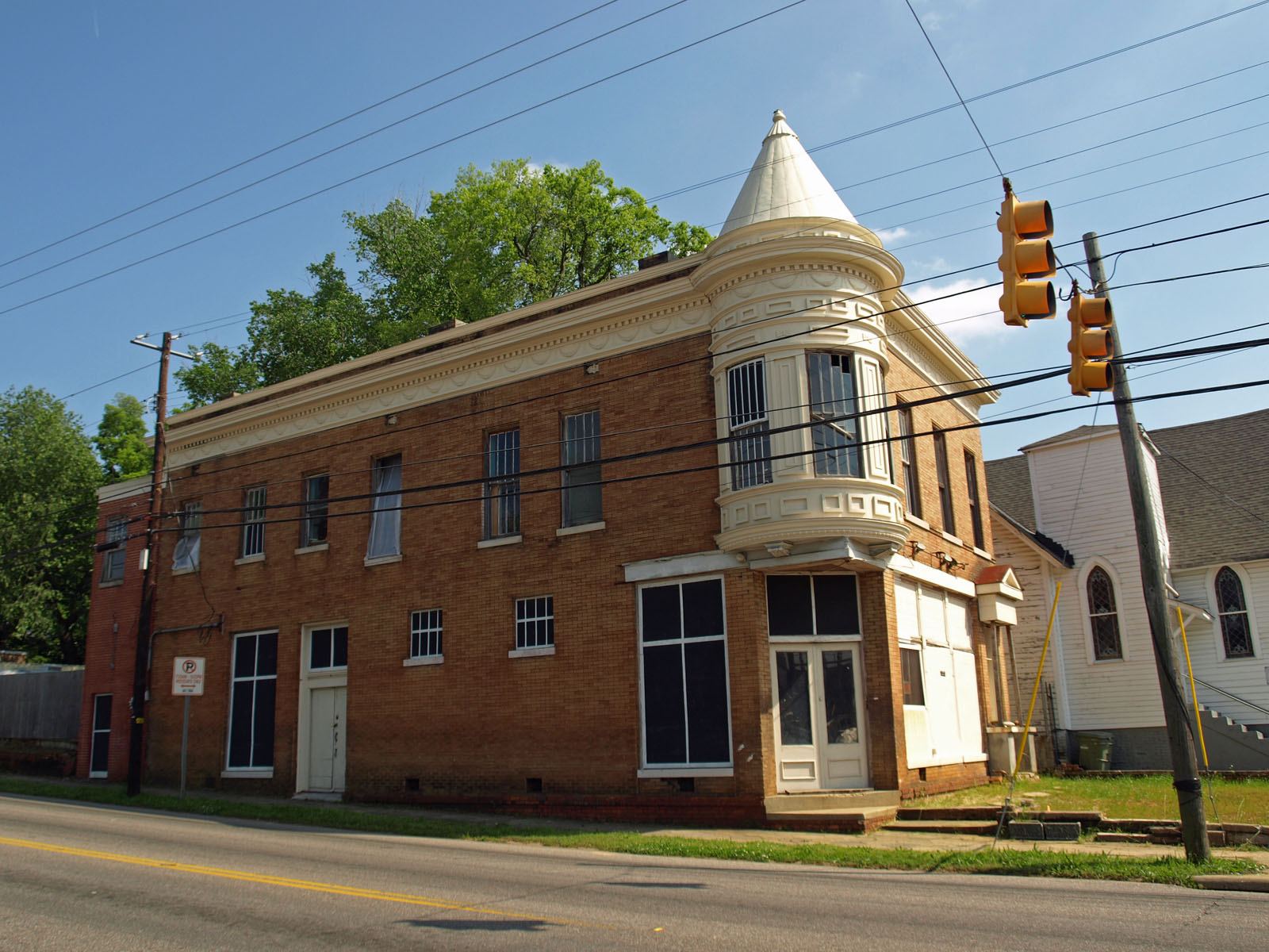 North and west sides of the Tulane Building in Montgomery, Alabama